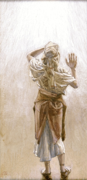 God Appears to Noah, c. 1896-1902, by James Jacques Joseph Tissot (French, 1836-1902), gouache on board, 8 15/16 x 4 3/8 in. (22.7 x 11.1 cm), at the Jewish Museum, New York